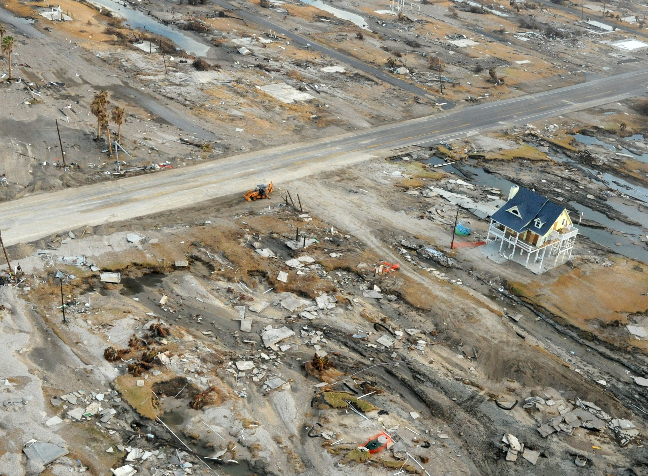 An aerial view of the damage Hurricane Ike inflicted upon Gilchrist, Texas